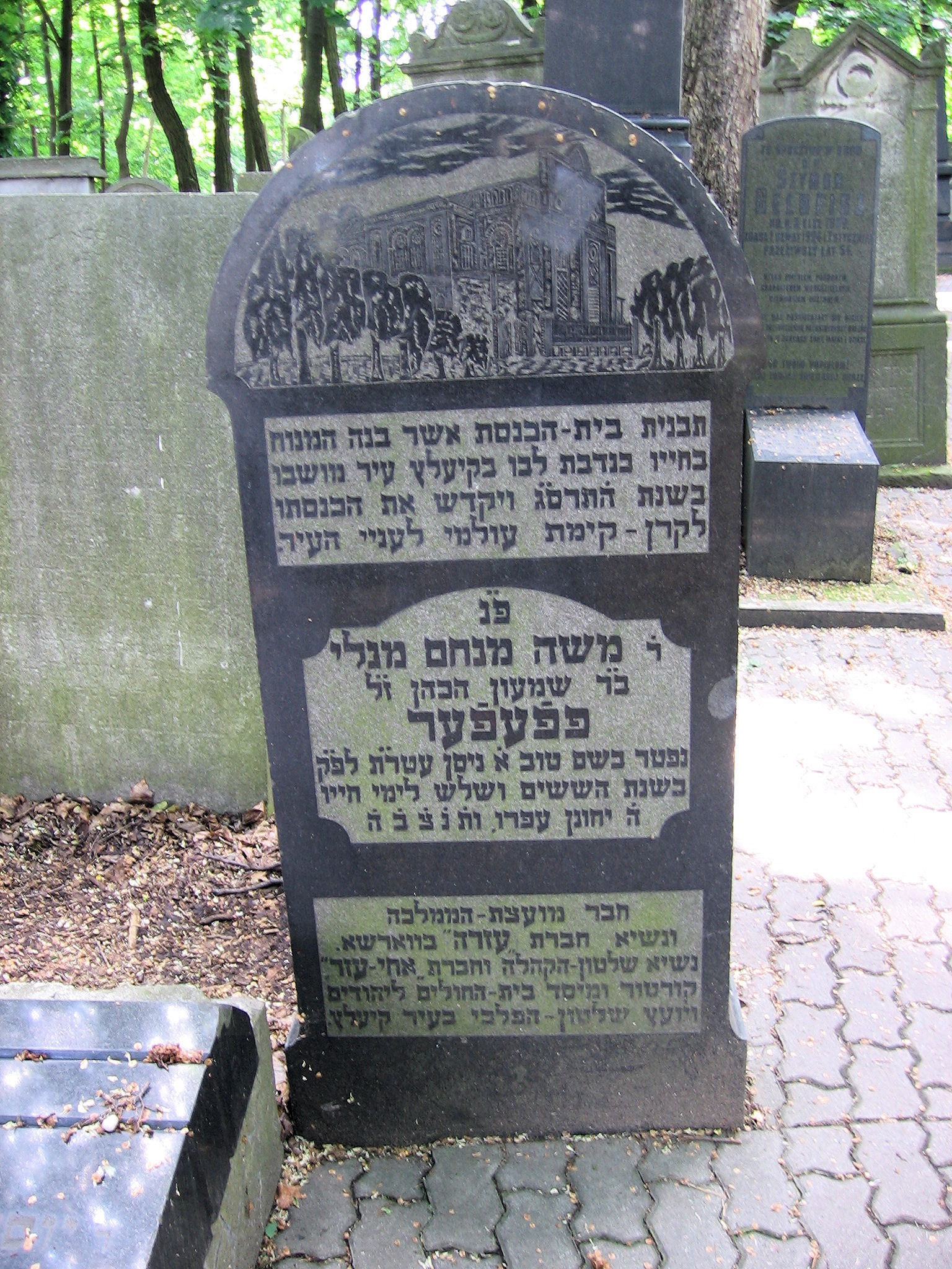 The grave of Moses Pfeffer at Powązki Jewish Cemetery in Warsaw, Poland